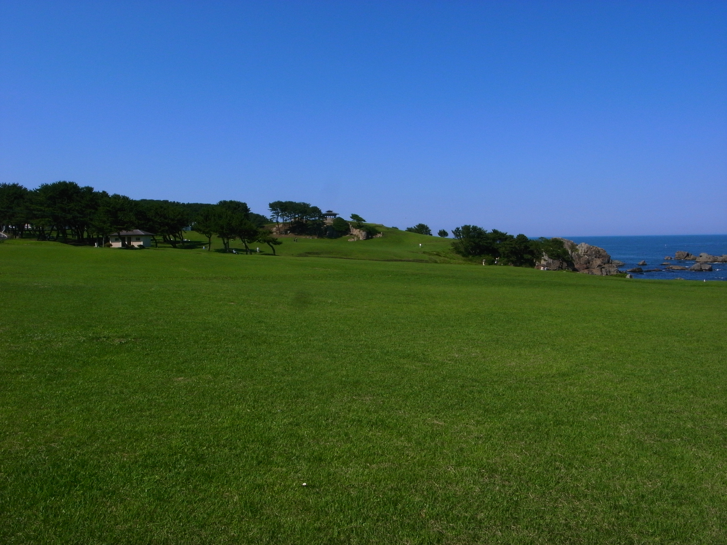 The natural turf adjoining Tanesashi Beach.